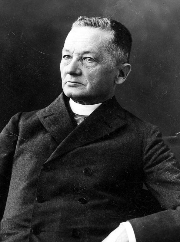 Member of Polish Parliament Józef Londzin